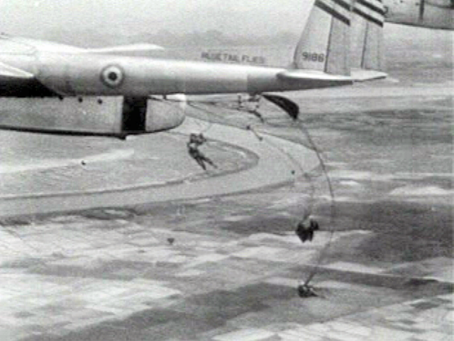 News Magazine of the Screen, The (1954/05): French battle fiercely at Dien Bien Phu. (De-Interlaced using Richard Rosenman's Smart De-Interlacer plugin for Photoshop)